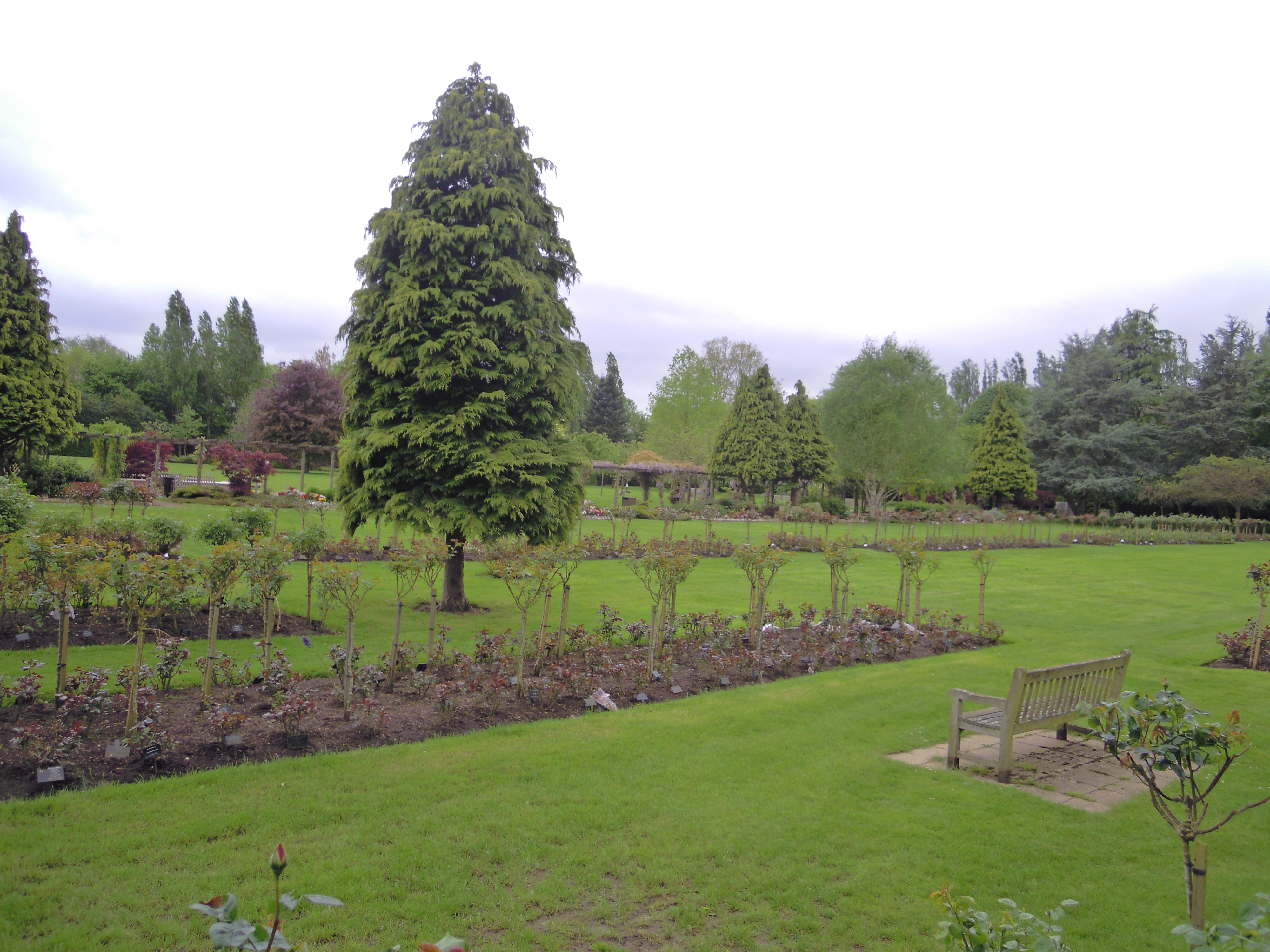 The Park Crematorium in Aldershot in Hampshire